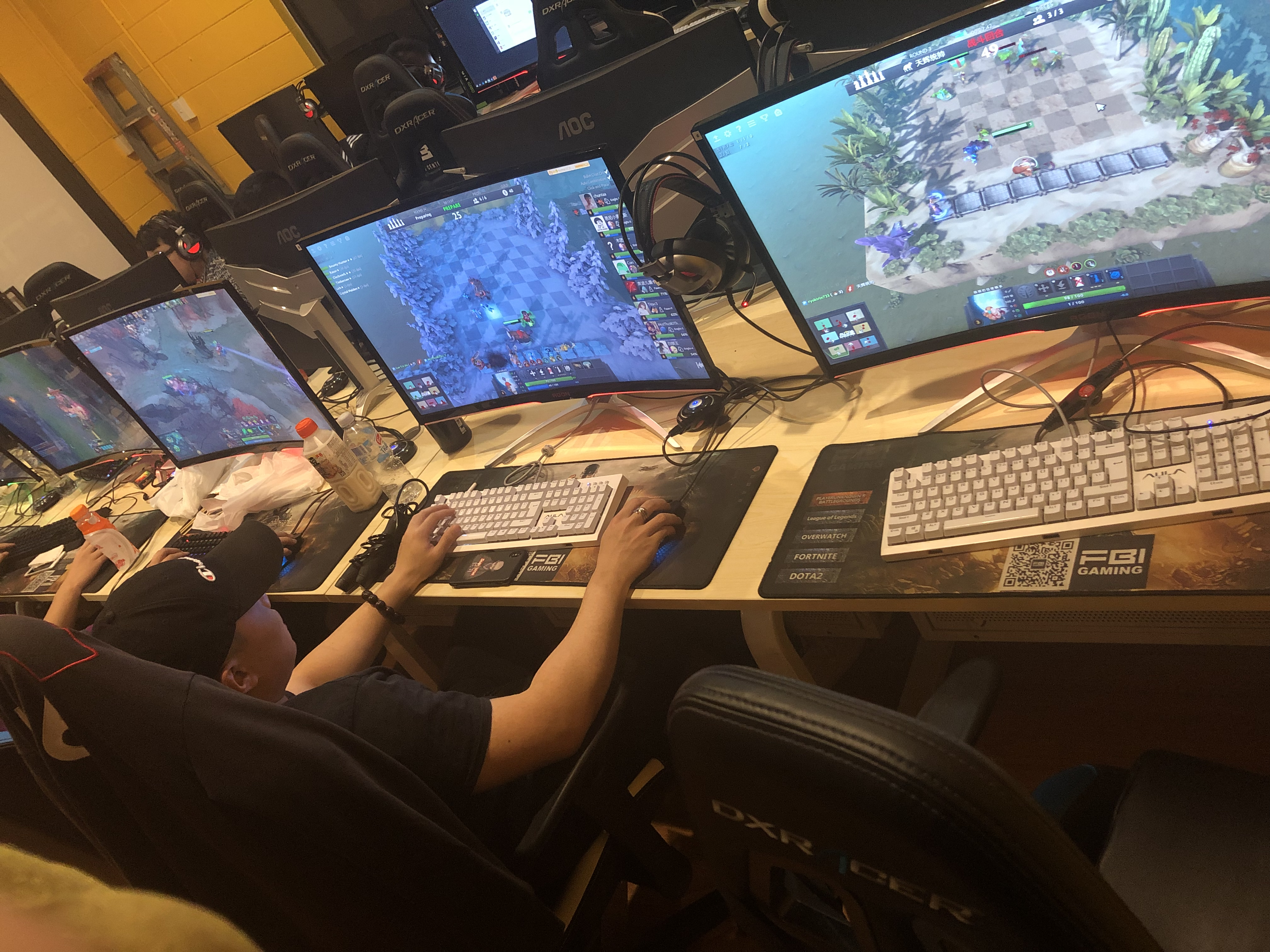 people play dota auto chess in internet cafe